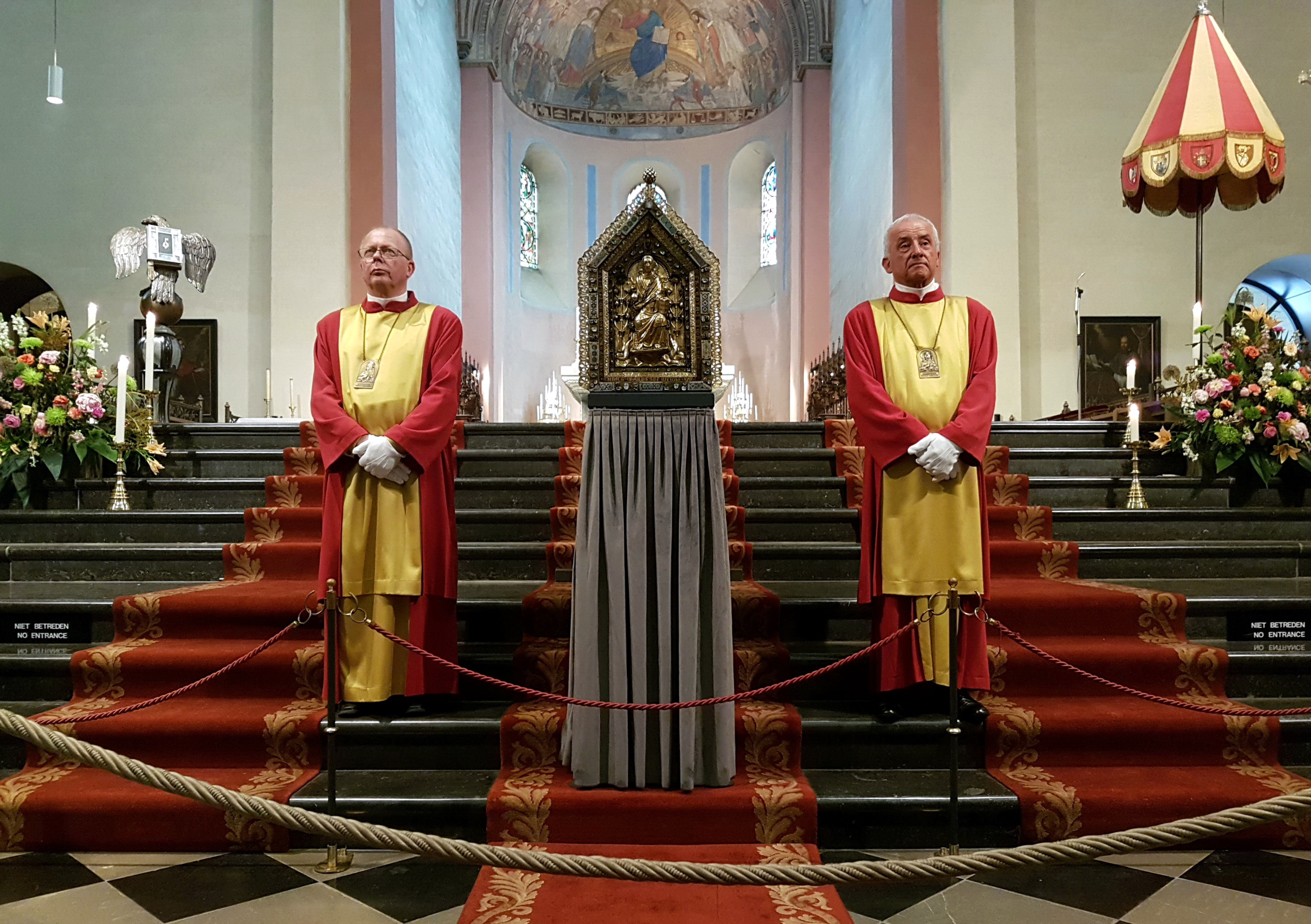 View of the reliquary chest of Saint Servatius on the choir steps of the Basilica of Saint Servatius in Maastricht, Netherlands. The 12th-century shrine is exhibited here from morning until evening during the ten days of the 2018 Heiligdomsvaart ("Relics Pilgrimage"). It is constantly escorted by 2 or 4 members of the Broederschap van Sint Servaas (Confraternity of Saint Servatius). The history of the seven-yearly Maastricht Heiligdomsvaart goes back to the Middle Ages. The first 'modern' version of this catholic pilgrimage took place in 1874. The 2018 Heiligdomsvaart was the 55th edition.